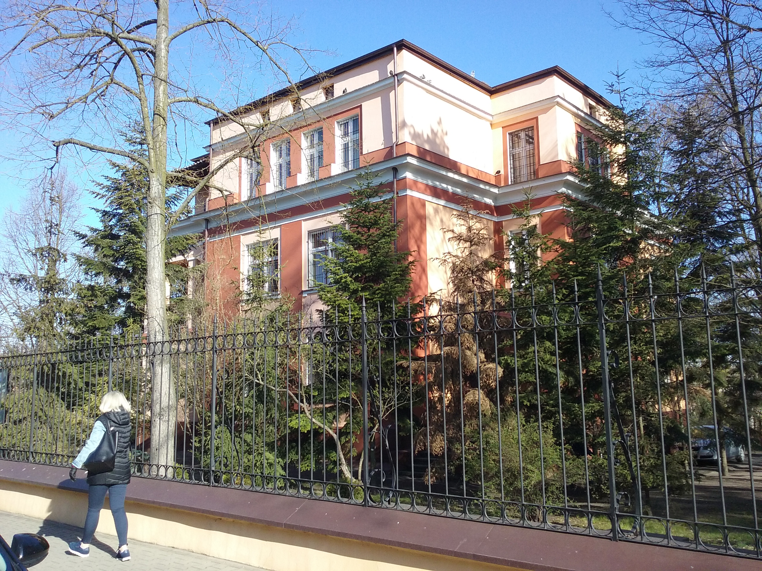 Wojskowa Komenda Uzupełnień (WKU), w Tomaszowie Mazowieckim, ulica P.O.W.